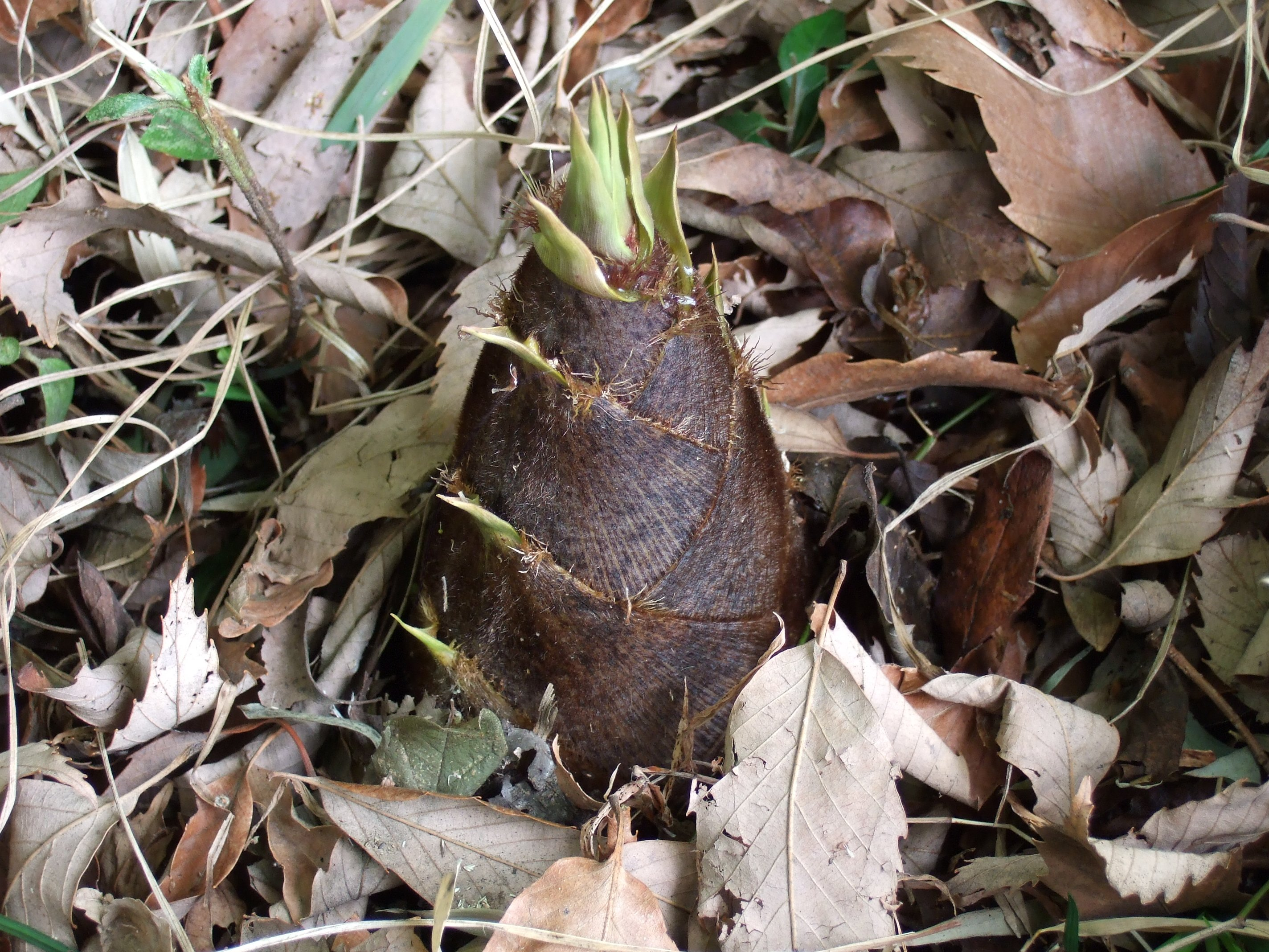 Bamboo sprout. Photo taken in a park of Tokyo Japan.